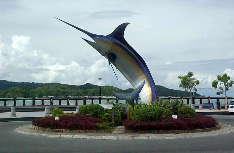 Kota Kinabalu City Centre, Malaysia